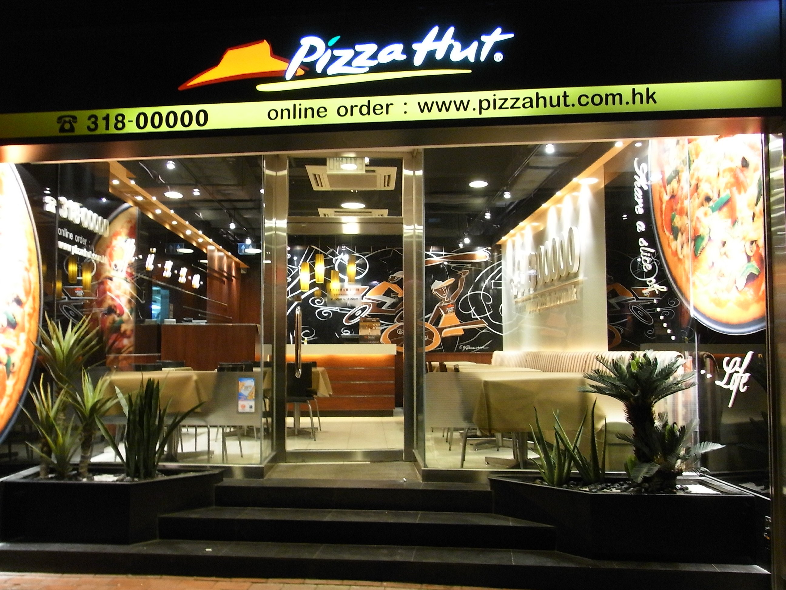 Night in Jervois Street, Sheung Wan, Hong Kong